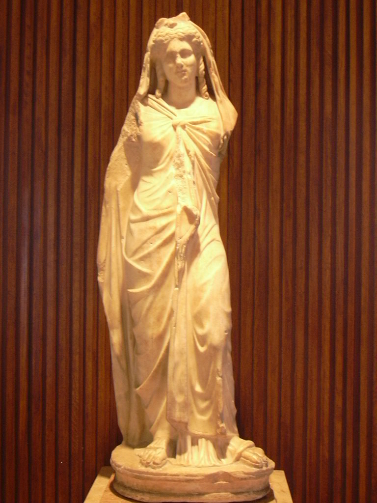 Roman sculpture of a goddess in the Museum of Burgos